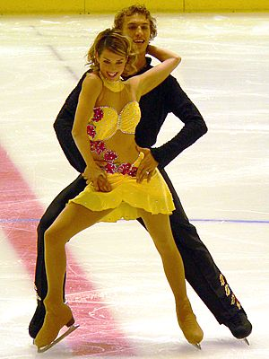 Kayla Nicole FREY and Deividas STAGNIUNAS during their original dance at the 2005 Junior Grand Prix event in Croatia